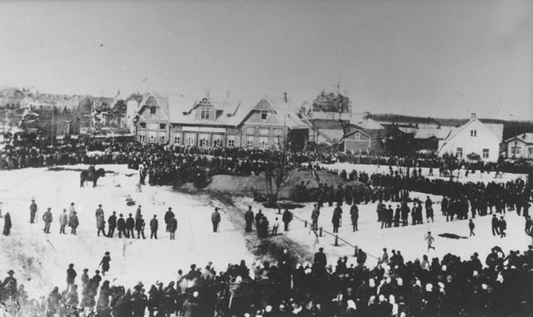 1918 Finnish Civil War: Funeral of the fallen Red Guard fighters in Lappeeranta.